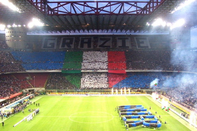 An image from an Inter Milan match. Machine translations from